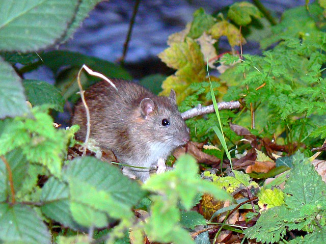 Brown rat near the River Kennet, Marlborough Rattus norvegicus is notoriously fecund and a female rat reproduces 6 to 8 times a year with an average of 7 babies each time. She can mate 18 hours after giving birth. More here